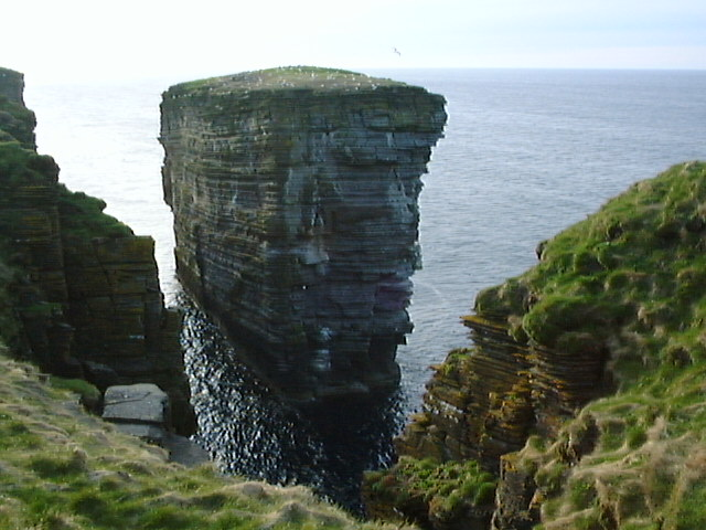 Clett Rock. Clett Rock is famous for the weird feeling that you are going uphill when you drive round it in a boat.